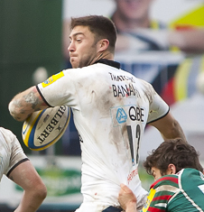 Bath's Matt Banahan looks to offload out of the back of his hand to winger Horacio Agulla as Anthony Allen makes a tackle. Leicester Tigers vs Bath, Aviva Premiership, Welford Road, Saturday 1st December 2012